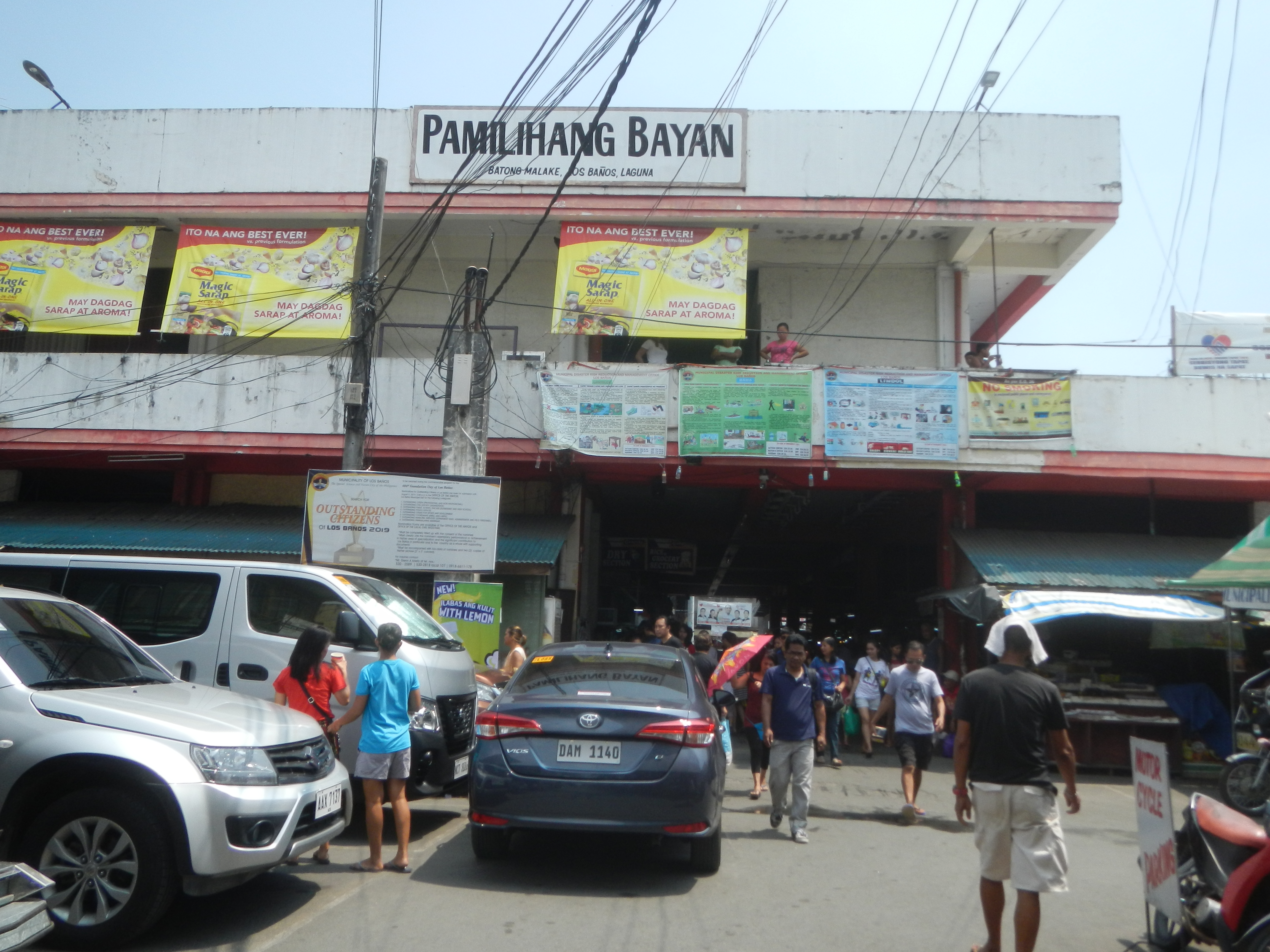 Home Along Appliances, Los Baños Batong Malake, Los Baños, Laguna Batong Malake Public Market Los Baños National Highway List of barangays in Laguna (province) Barangays Batong Malake, Los Baños, Laguna 14.1527, 121.2282 San Antonio, Los Baños, Laguna 14°10'32"N 121°14'48"E Maahas, Los Baños, Laguna 14°10'23"N 121°15'21"E Los Baños, Laguna Calamba–Pagsanjan Road from Manila East Road Philippine highway network (Note: Judge Florentino Floro, the owner, to repeat, Donor Florentino Floro of all these photos hereby donate gratuitously, freely and unconditionally Judge Floro all these photos to and for Wikimedia Commons, exclusively, for public use of the public domain, and again without any condition whatsoever).